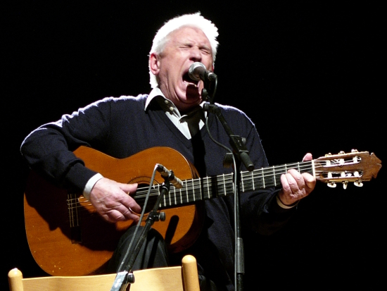 Valencian singer-songwriter Raimon performing live in Almussafes